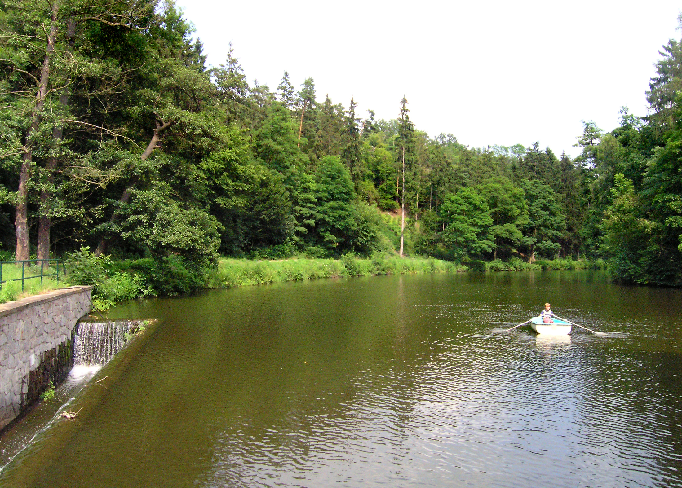 Dolnomlýnský pond in Kunratice, Prague